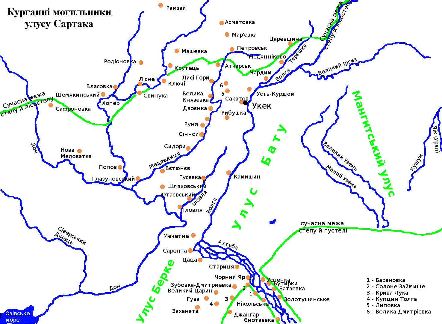 Kurgans of Ulus of Sartaq Khan son of Batu Khan